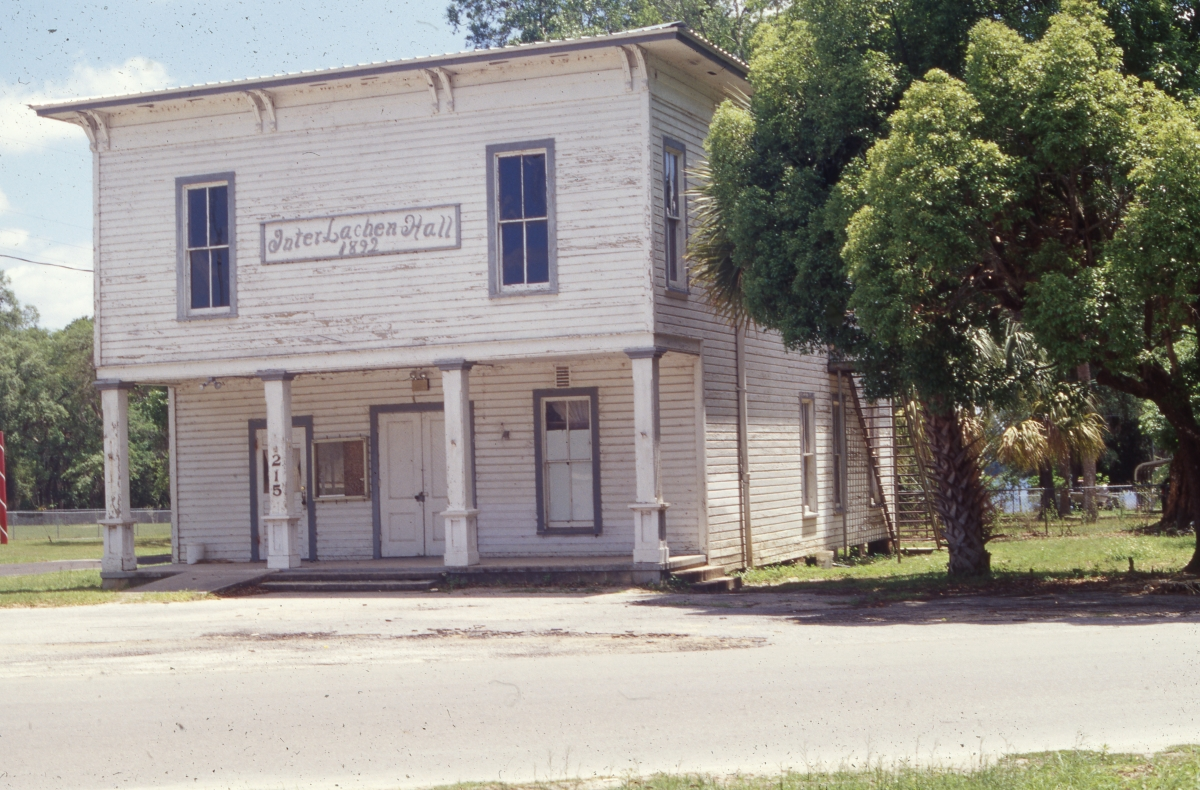 Interlachen Hall has functioned as the city government and community meeting center for the town since its completion in 1892. The two-story frame building was later added to the U.S. National Register of Historic Places on June 2, 2000.